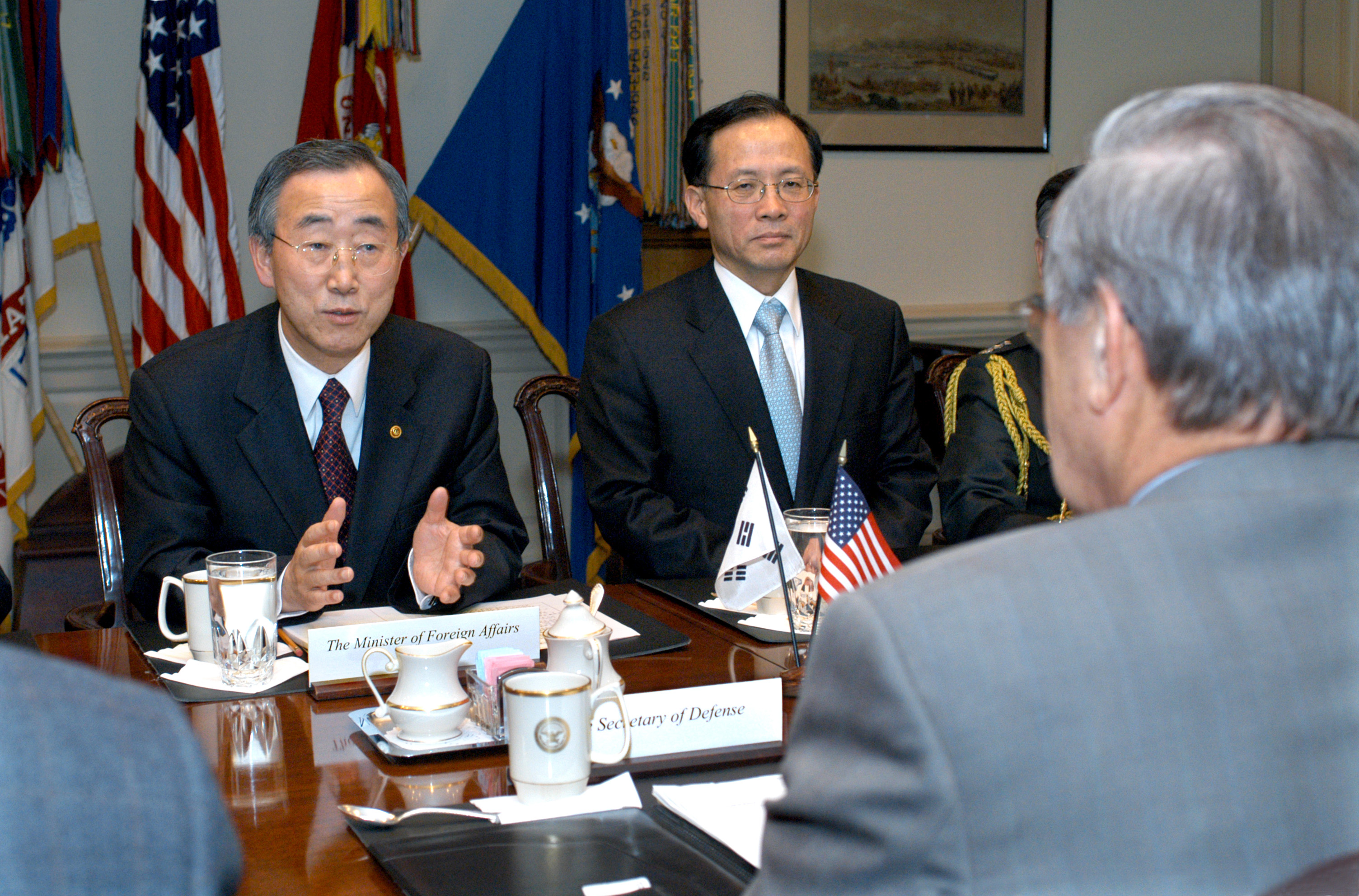 South Korean Minister of Foreign Affairs Ban Ki-moon (left) meets with Secretary of Defense Donald H. Rumsfeld (foreground) in the Pentagon on March 4, 2004. A range of bilateral security issues were expected to be discussed. Among those participating in the talks is Minister Ban's deputy Lee Soo Hyuck (center).